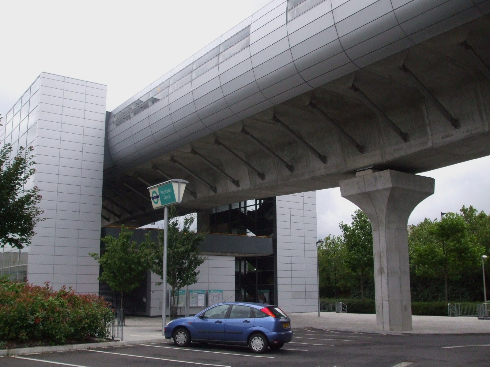 Pontoon Dock DLR station southern entrance